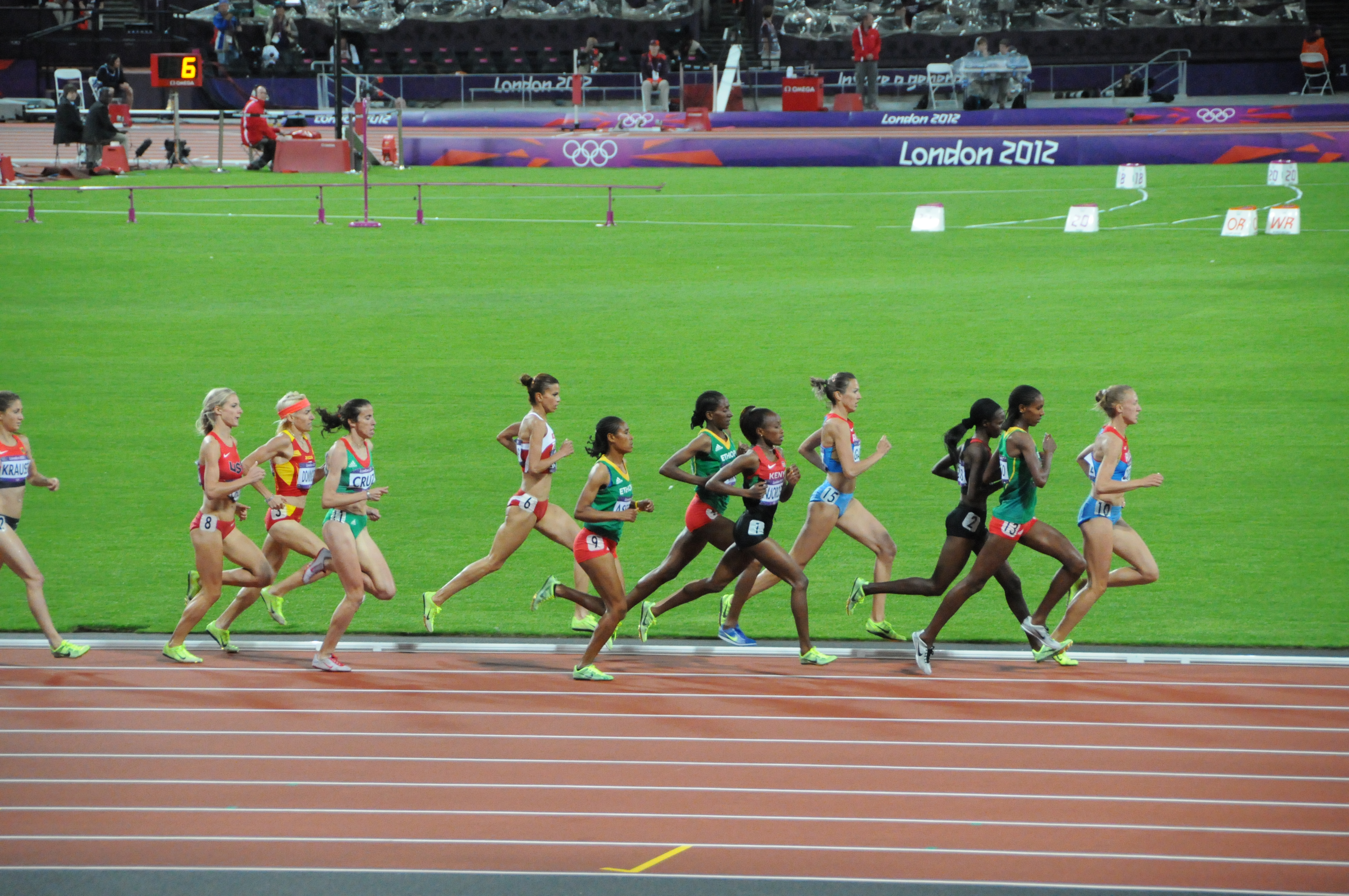 Course de 3000m steeple (JO Londres), Gesa Felicitas Krause, Emma Coburn, Marta Dominguez, Clarisse Cruz, Habiba Ghribi, Sofia Assefa, Etenesh Diro, Mercy Wanjiku Njoroge, Gulnara Galkina, Milcah Chemos Cheywa, Hiwot Ayalew, Yuliya Zaripova